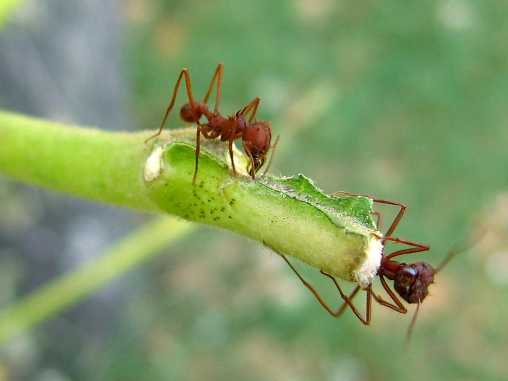 Some Texas leafcutter ants chomping away on an Catalpa tree.